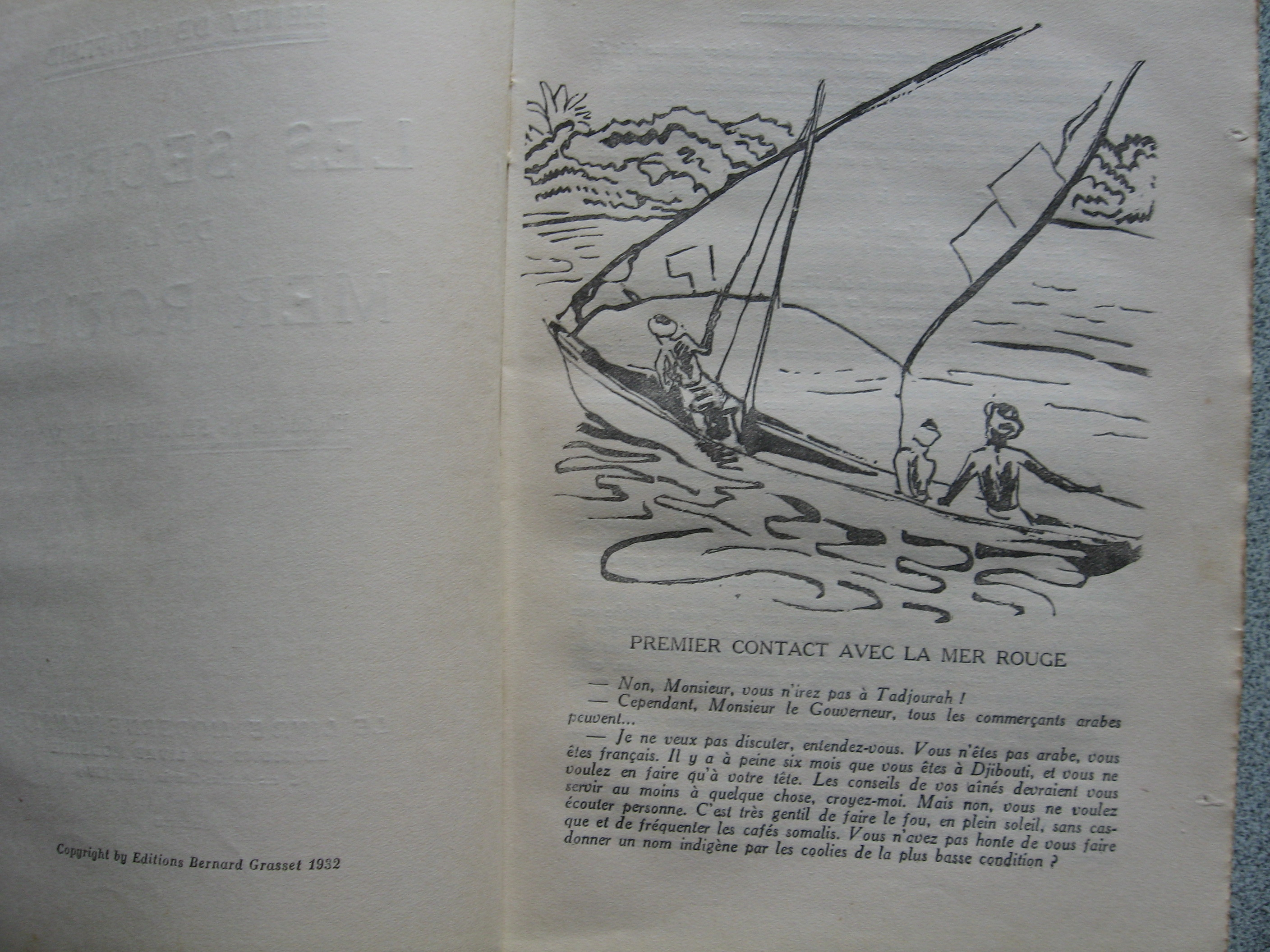 Première page de Les Secrets de la Mer Rouge d'Henry de Monfreid. Le Livre Moderne Illustré (Grasset) 1932.